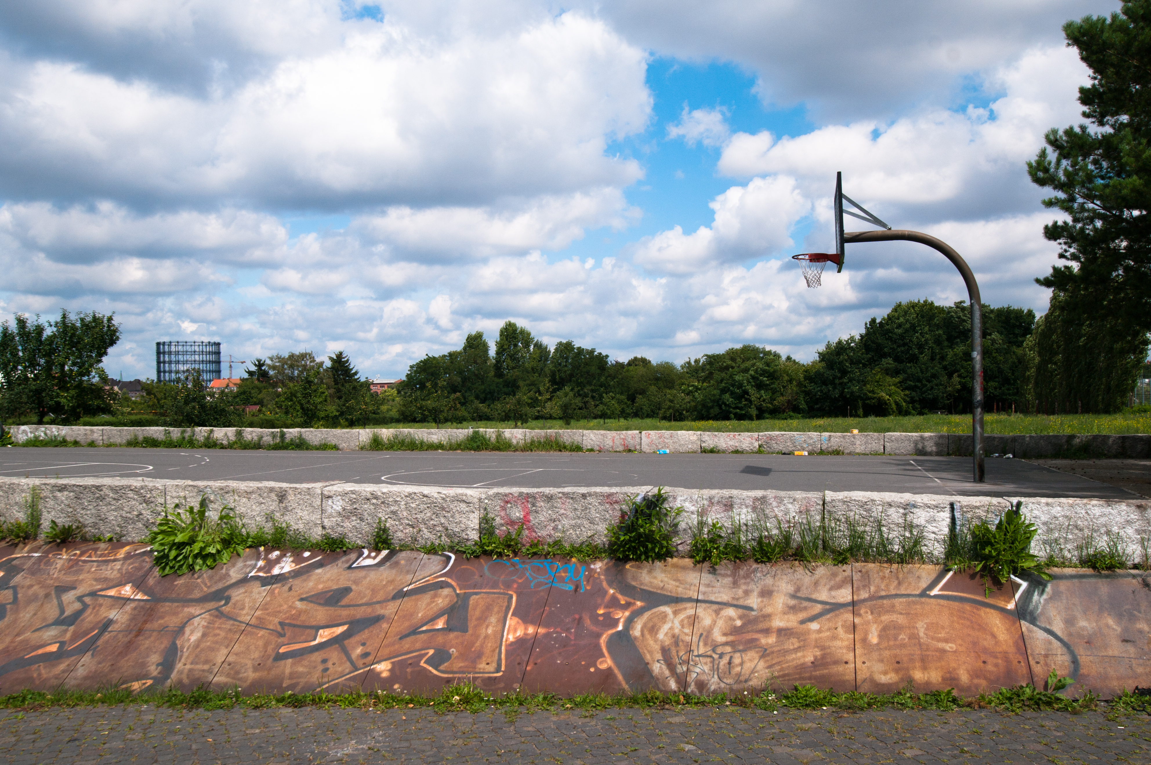 Basketball court in a park in Berlin-Schöneberg.